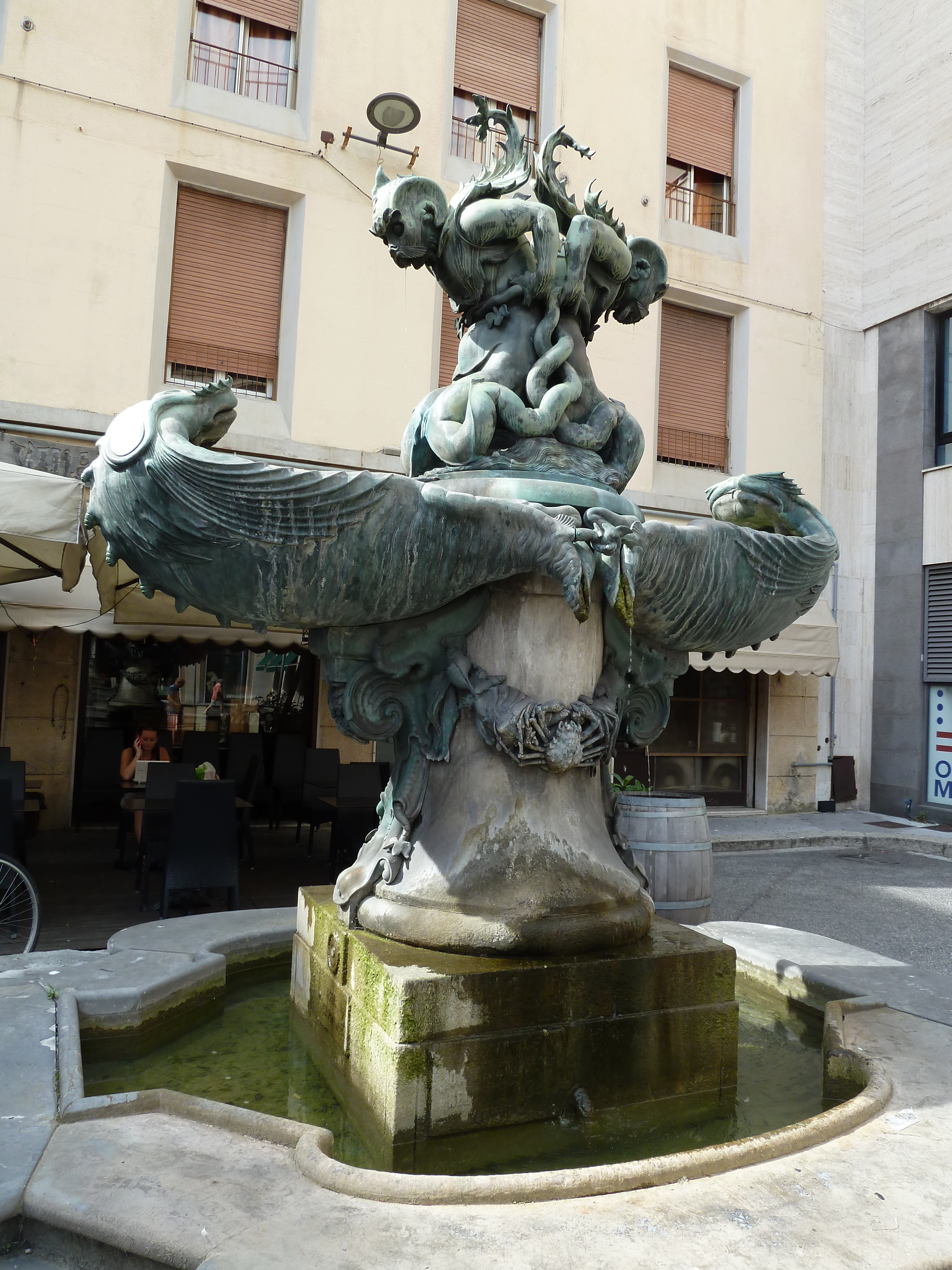 Sea Monster Fountains, Livorno, Italy June 2015